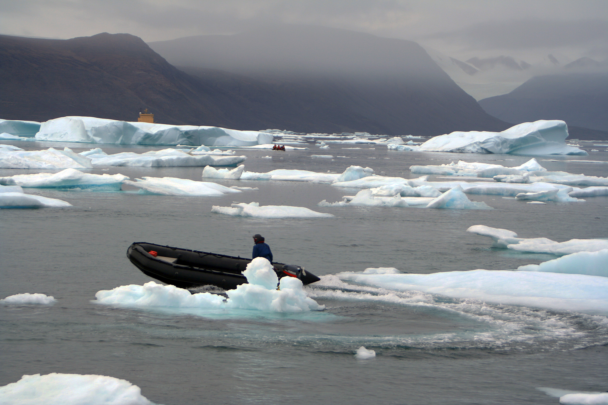 Zodiacs navigate between icebergs in Arctic waters